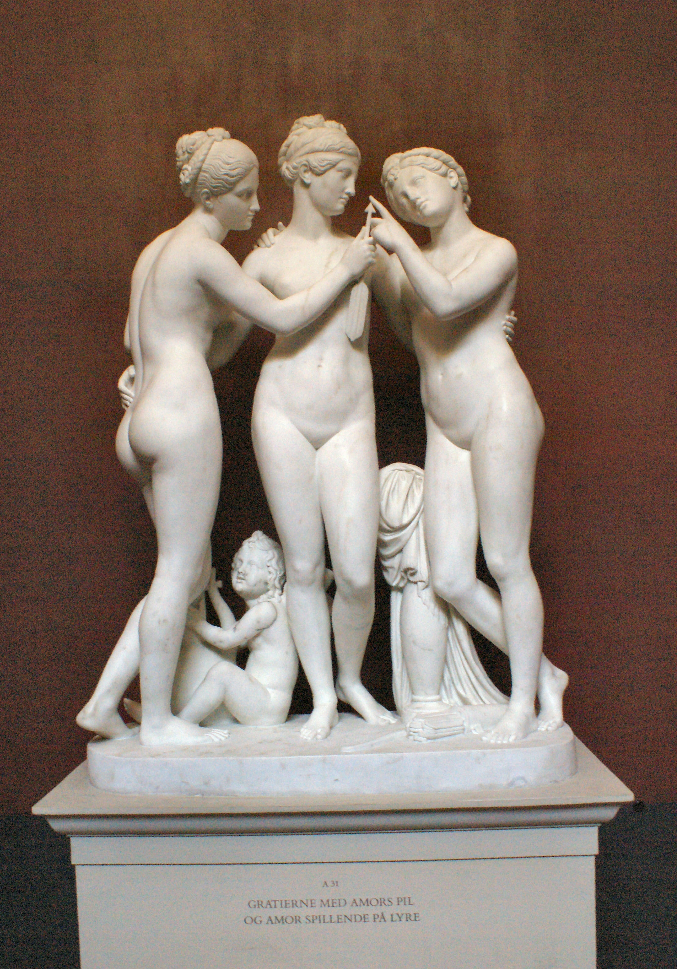 Graces and Amor, by Bertel Thorvaldsen 1817-18, in Thorvaldsens Museum, Copenhagen